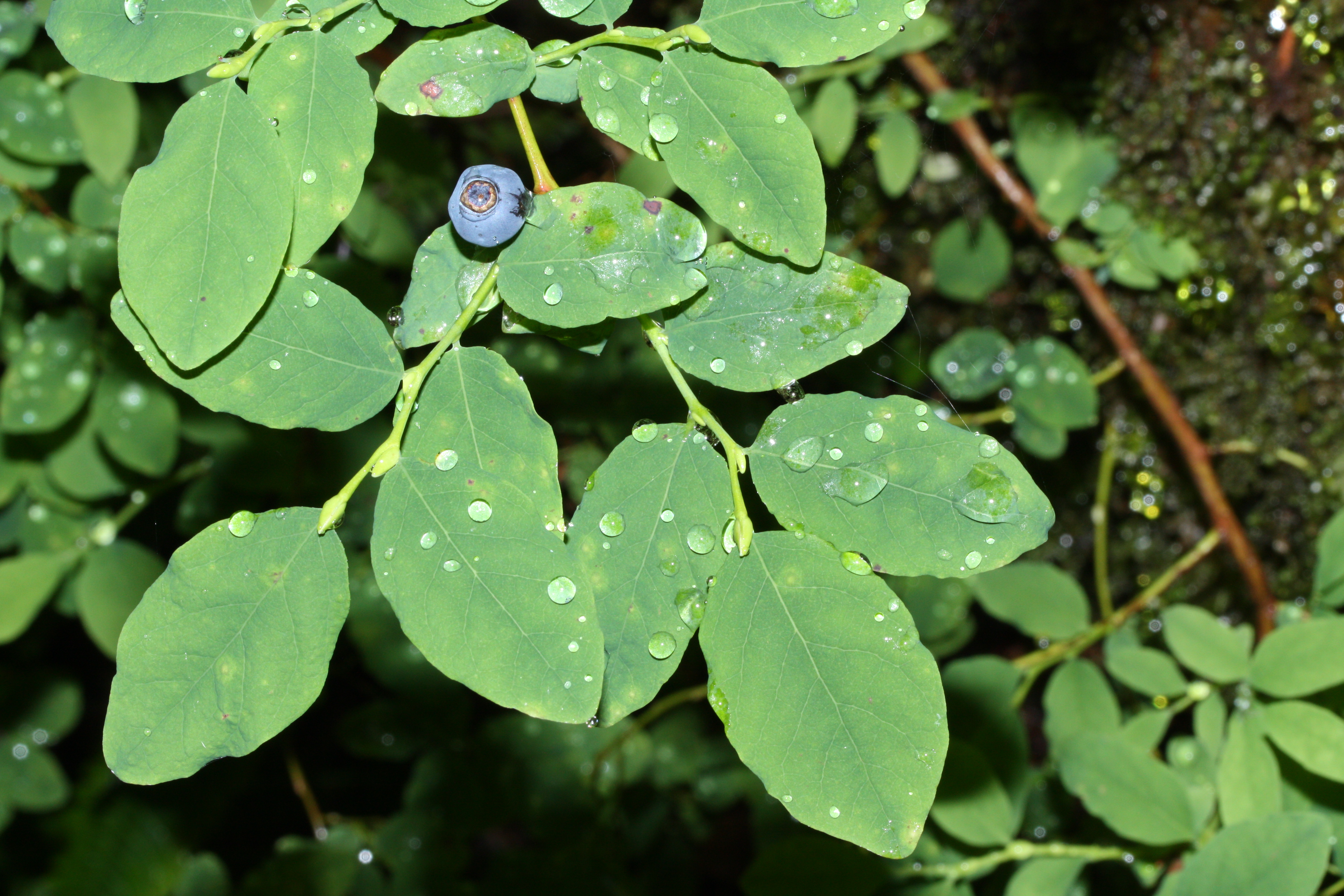 Oval-leaf Blueberry, Alaska Blueberry